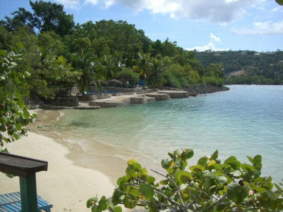 This is a photo of James Bond Beach in Oracabessa Jamaica, that I took myself using my own camera in December, 2006.